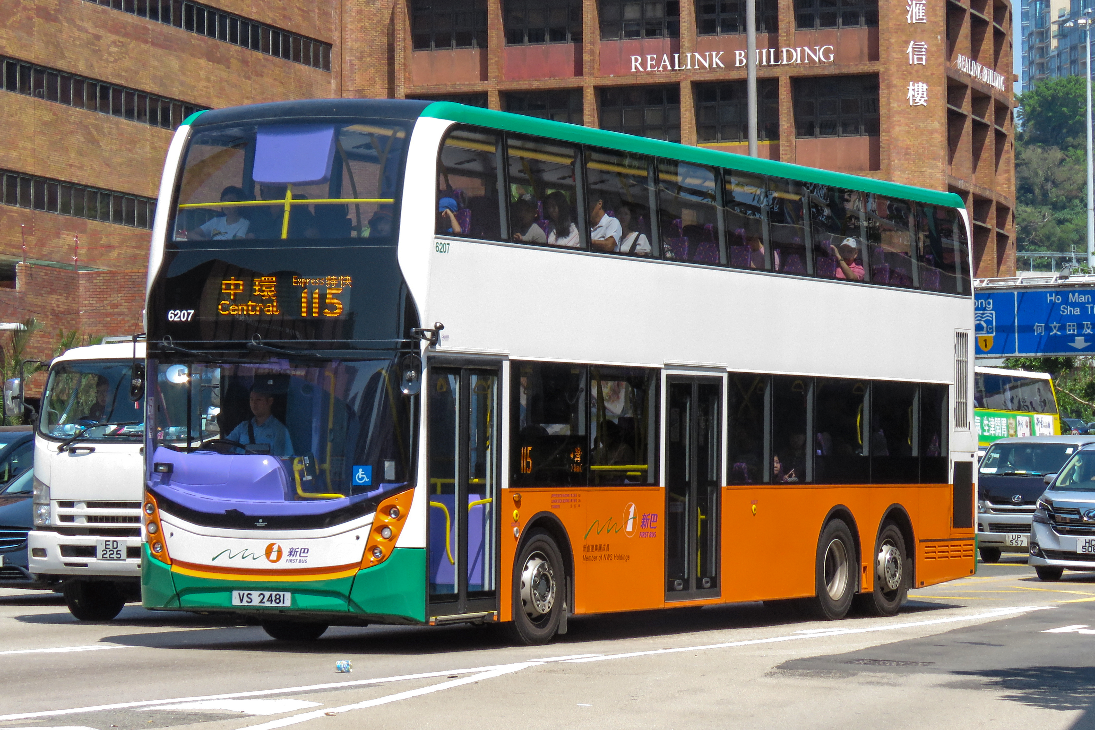 Route 115 is an old friend of Whampoa, and this MMC is quite new.